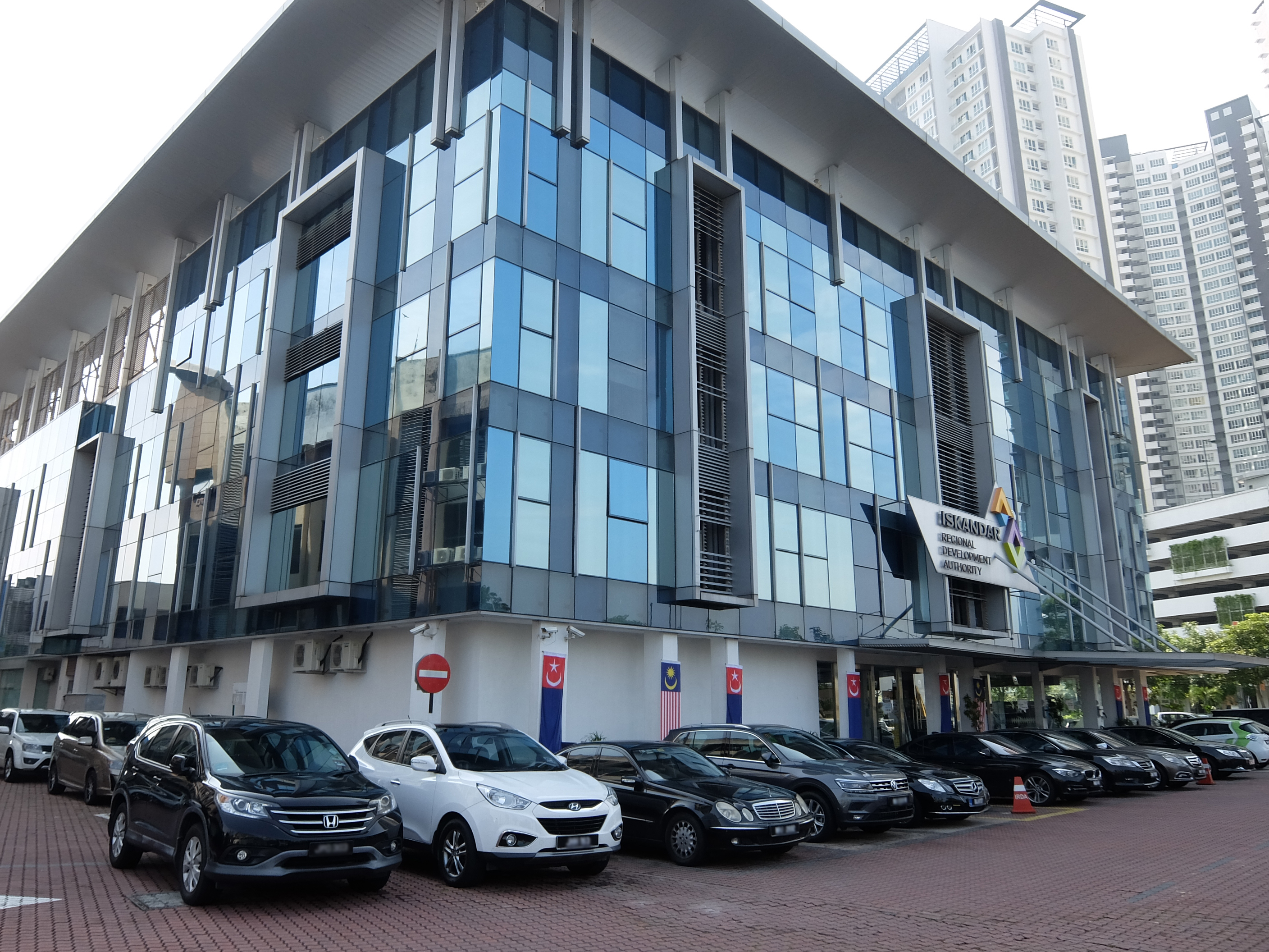 Iskandar Regional Development Authority, Danga Bay, Johor Bahru, Johor, Malaysia